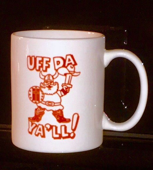 Mug with expressions Uff da! and Y'all